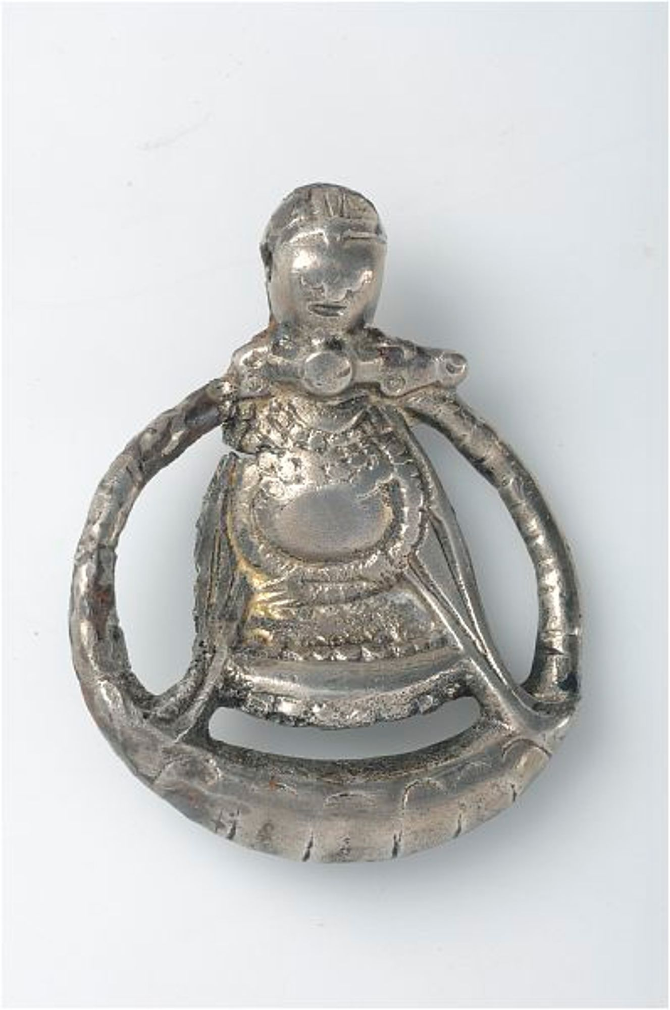 Brisingamen viking age